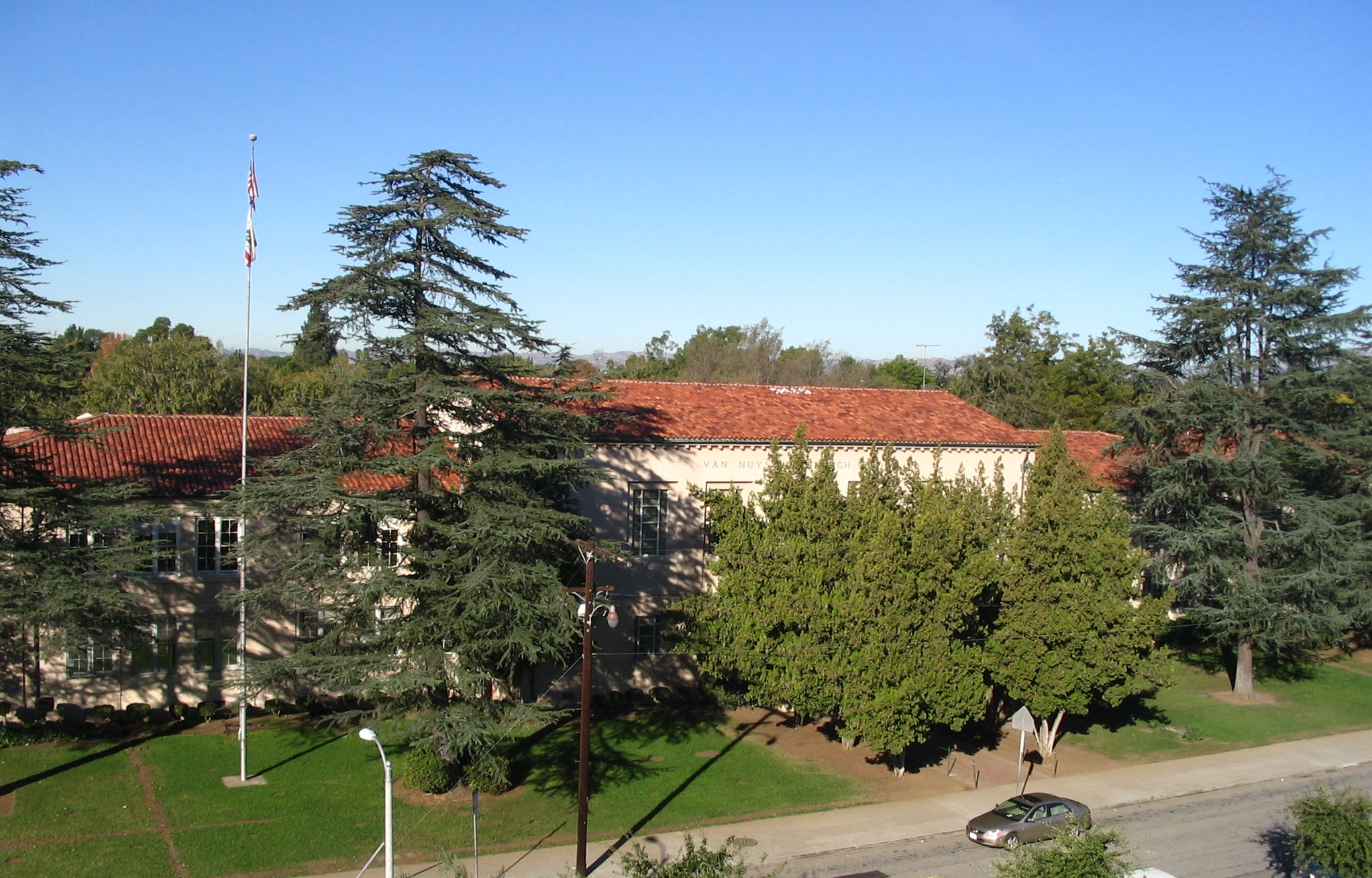 Van Nuys Middle School is located at 8435 Vesper Avenue, Sherman Oaks, CA. 91345